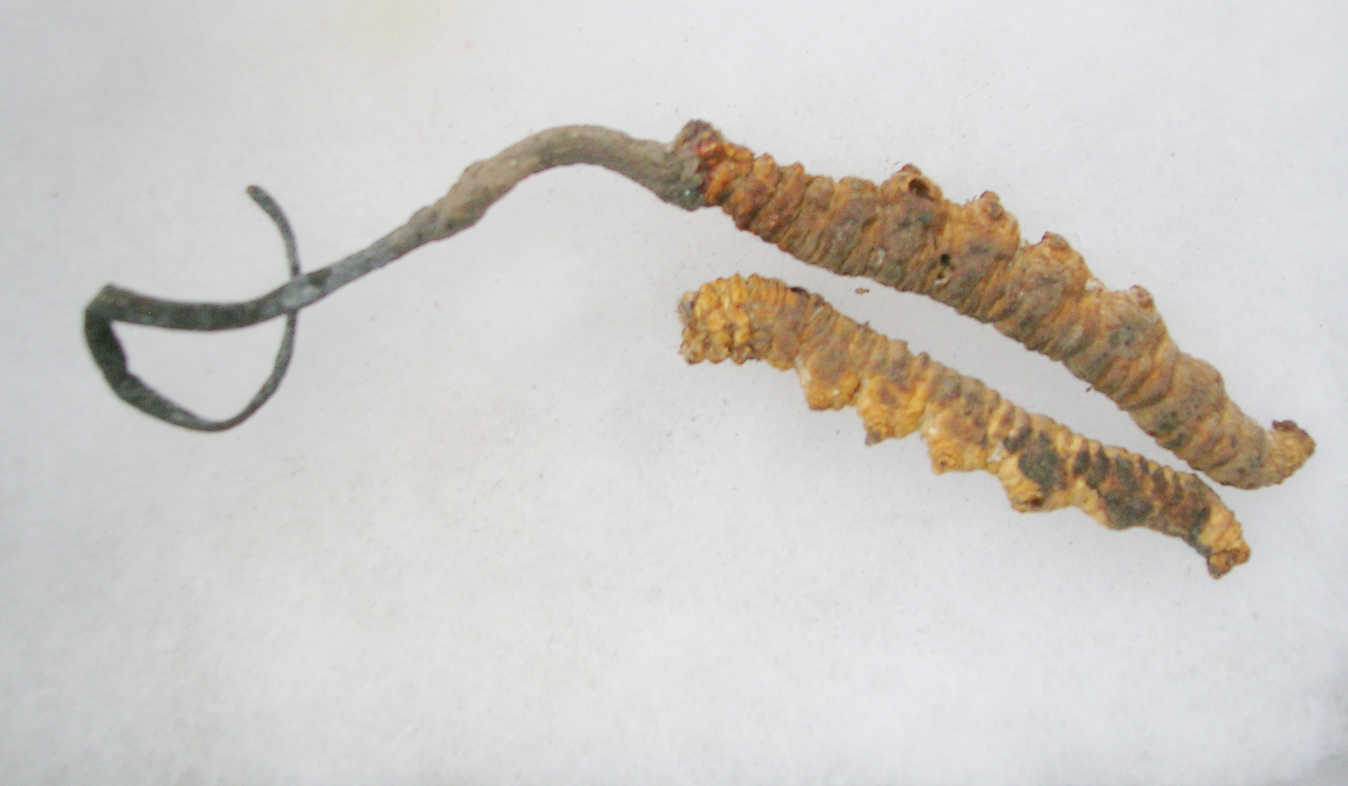 Cordyceps sinensis on caterpillars from collection of Womens collective, Munsiyari